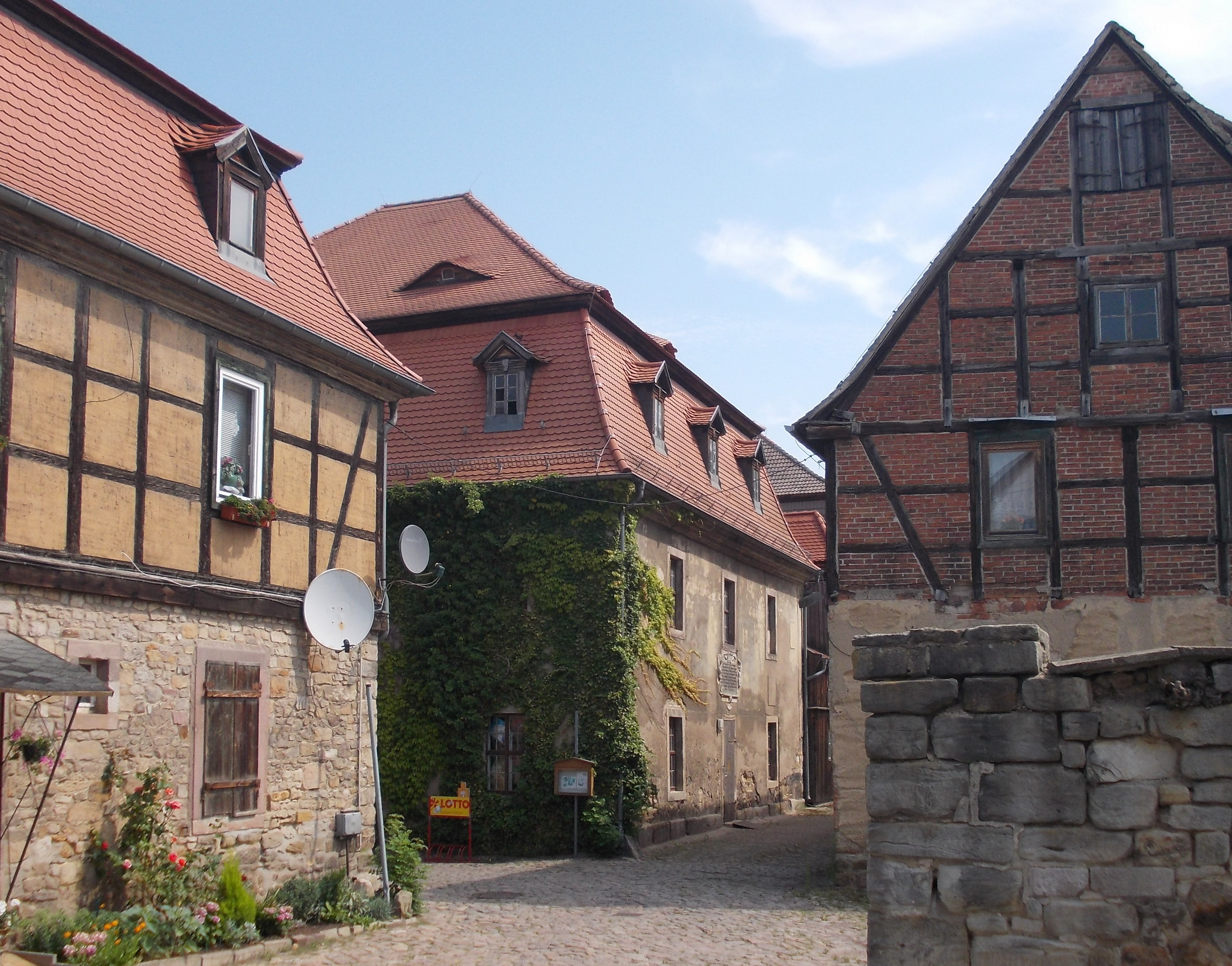 Holleben watermill (Teutschenthal, district: Saalekreis, Saxony-Anhalt)